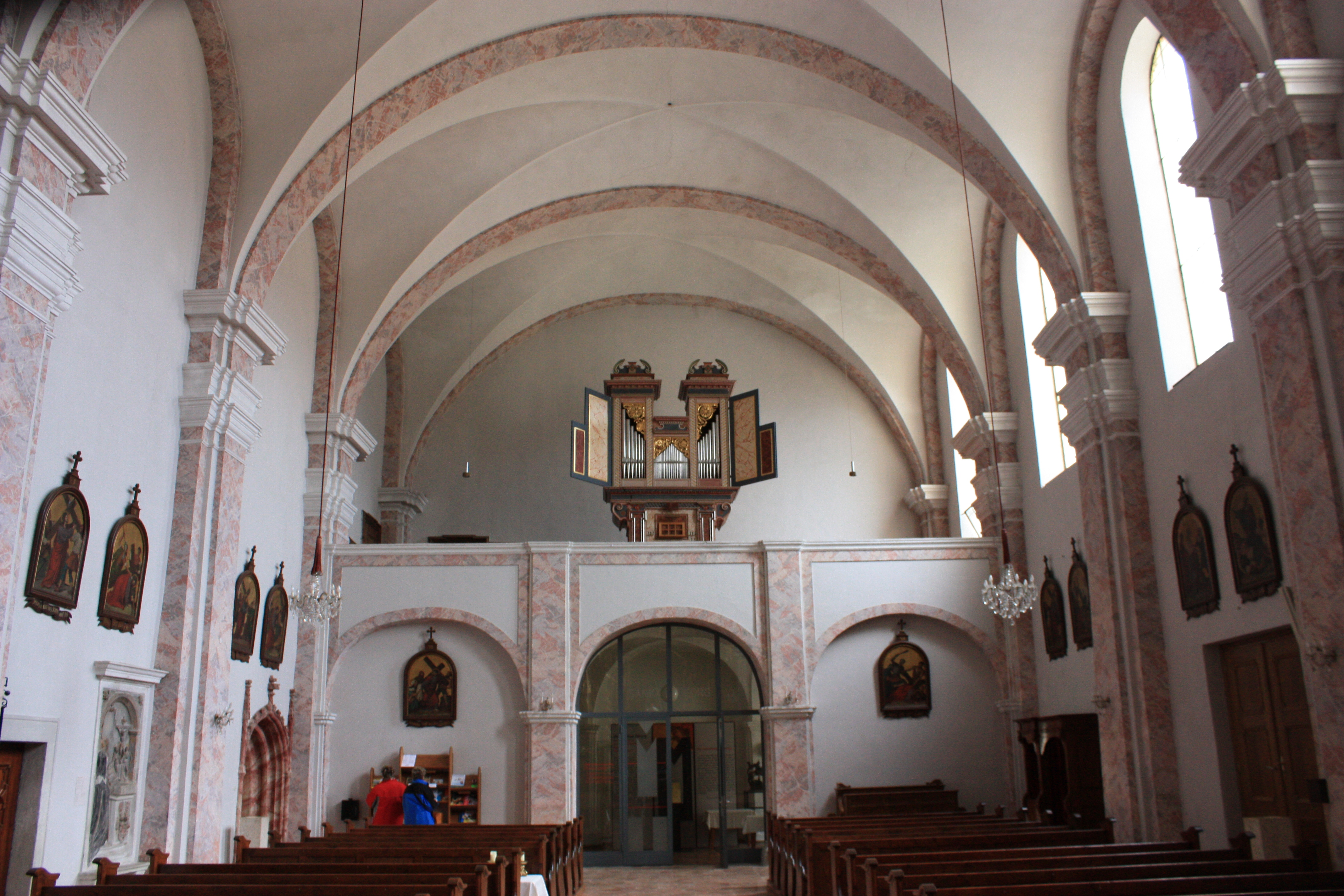 Monastery church: View to the Organ loft Locality: Sankt Georgen am Längsee Community:Sankt Georgen am Längsee